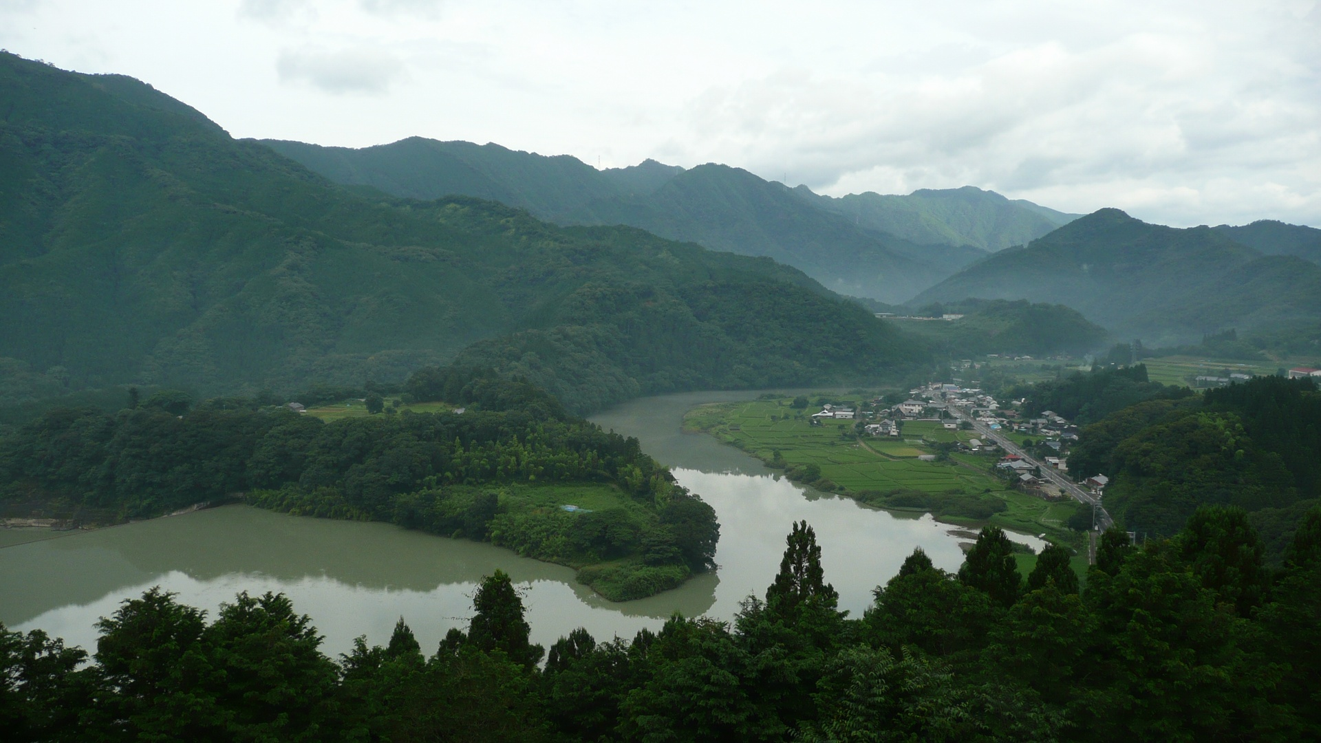 Ishikawauchi District and "Hyuga Atarashiki-mura" (Kijō, Miyazaki, Japan)